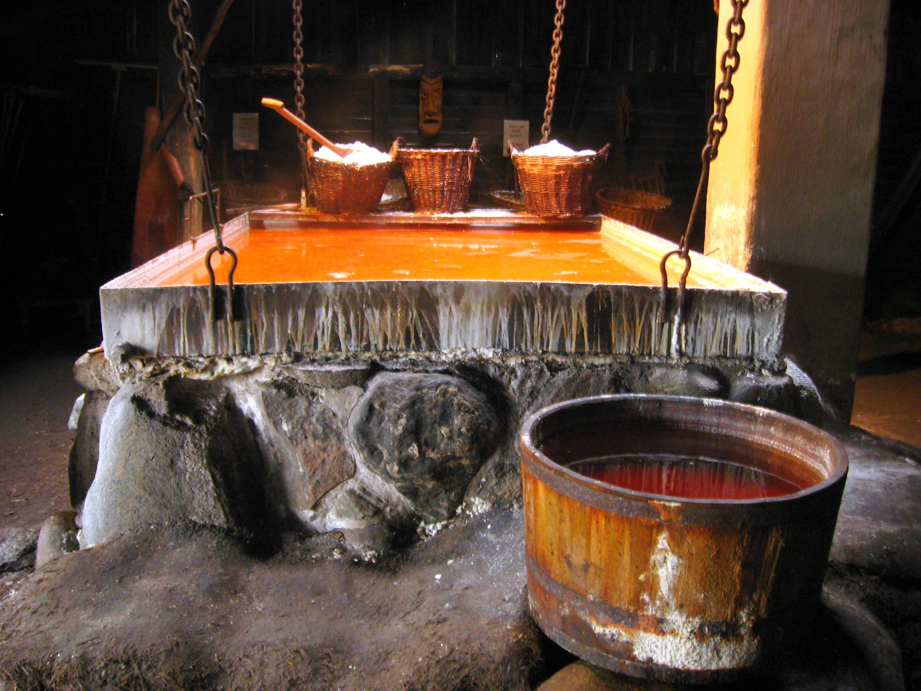 Salt-works on Læsø, Denmark